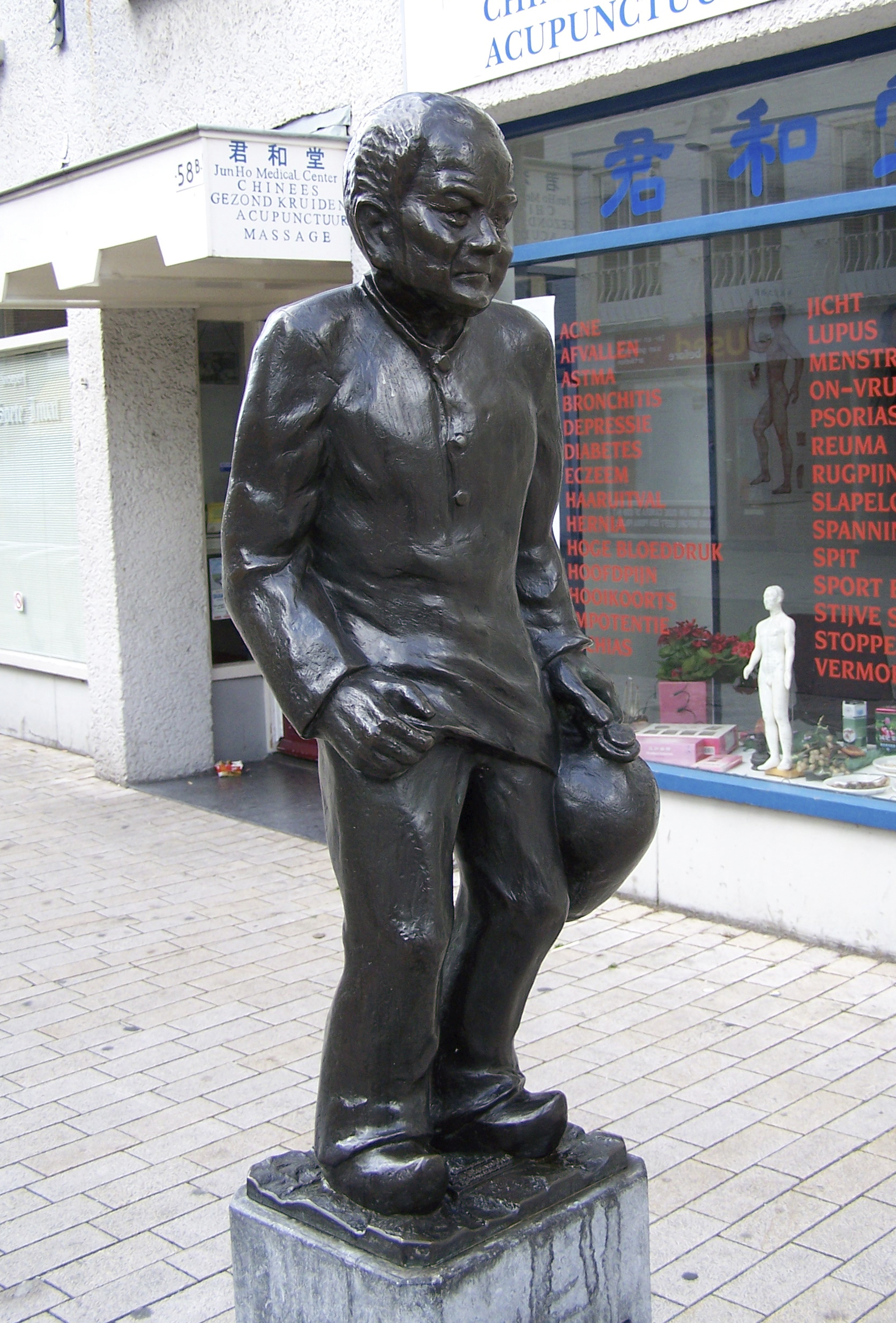 Sculpture "Kruikezeiker" by Henk Smulders. Placed at the corner of the Nieuwlandstraat/Heuvelstraat in Tilburg in 1986. It's a symbol of Carnaval.